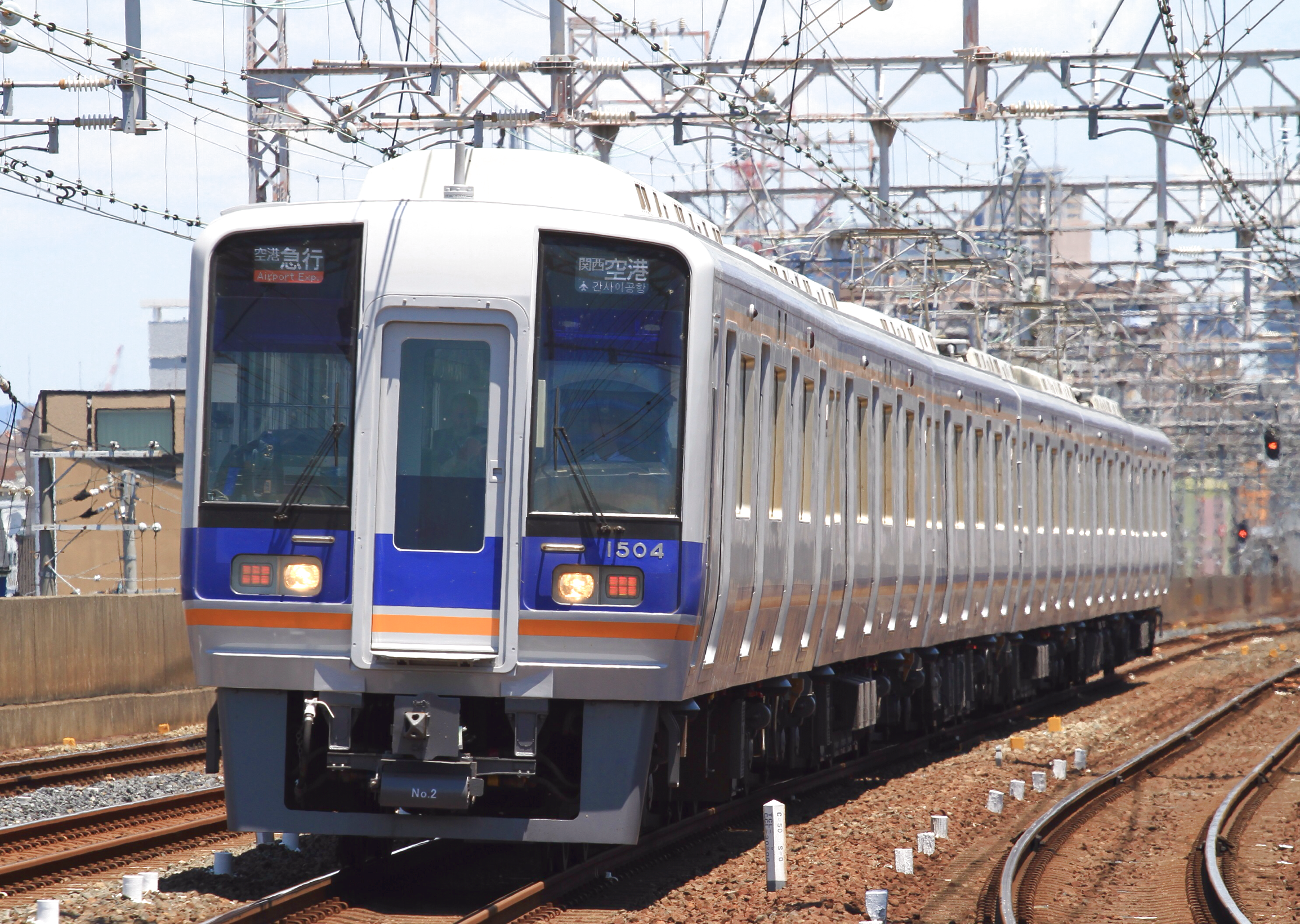 Refurbished Nankai 1000 series EMU set 1504 approaching Kohama Station